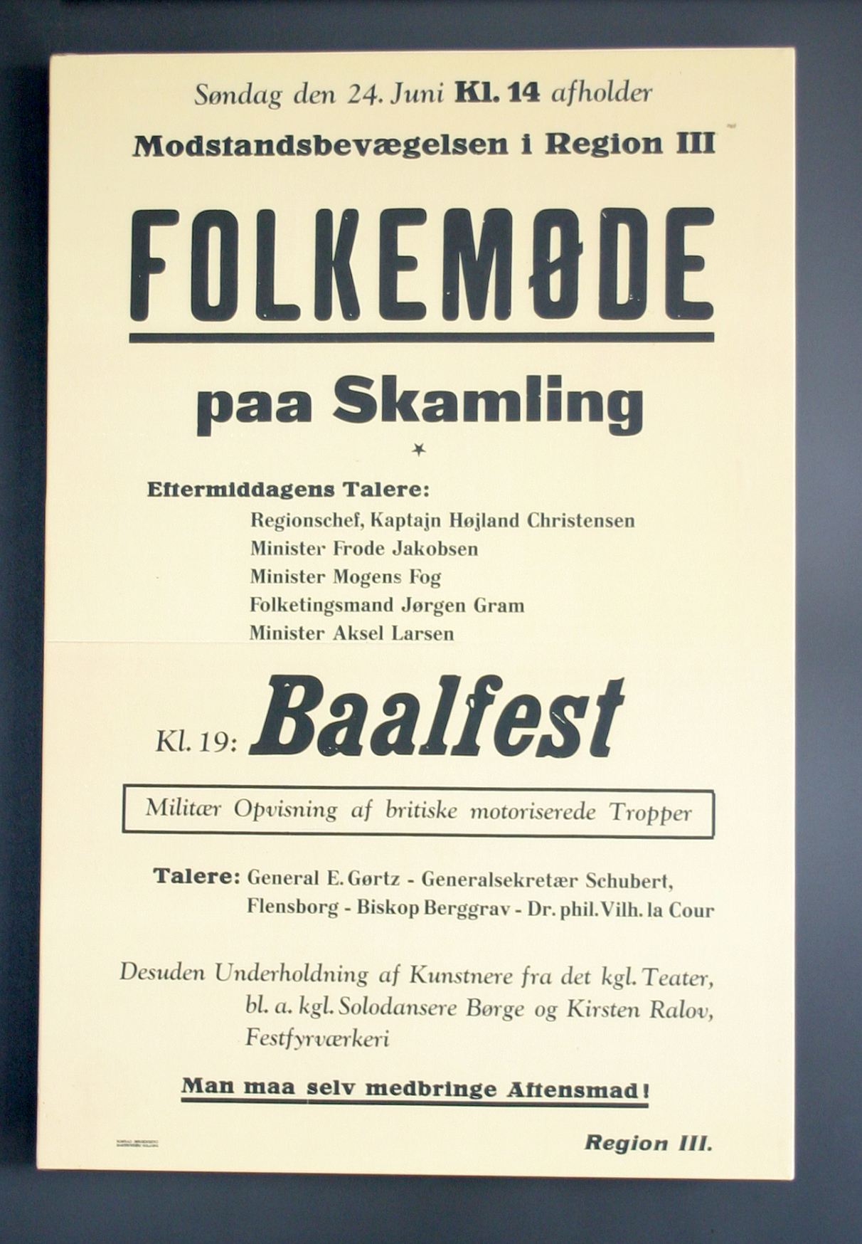 Poster for public meeting on 1945-06-24 Skamlingsbanken, on the occasion of the liberation and the end of World War II. It was the resistance movement's Region 3, who organized the meeting and was attended by approx. 80,000 people. There were speeches by many different people, including 3 ministers; Frode Jakobsen, Mogens Fog and Aksel Larsen. During the festival there were bonfires, show of British troops and several artists and dancers from the Danish Royal Theatre.